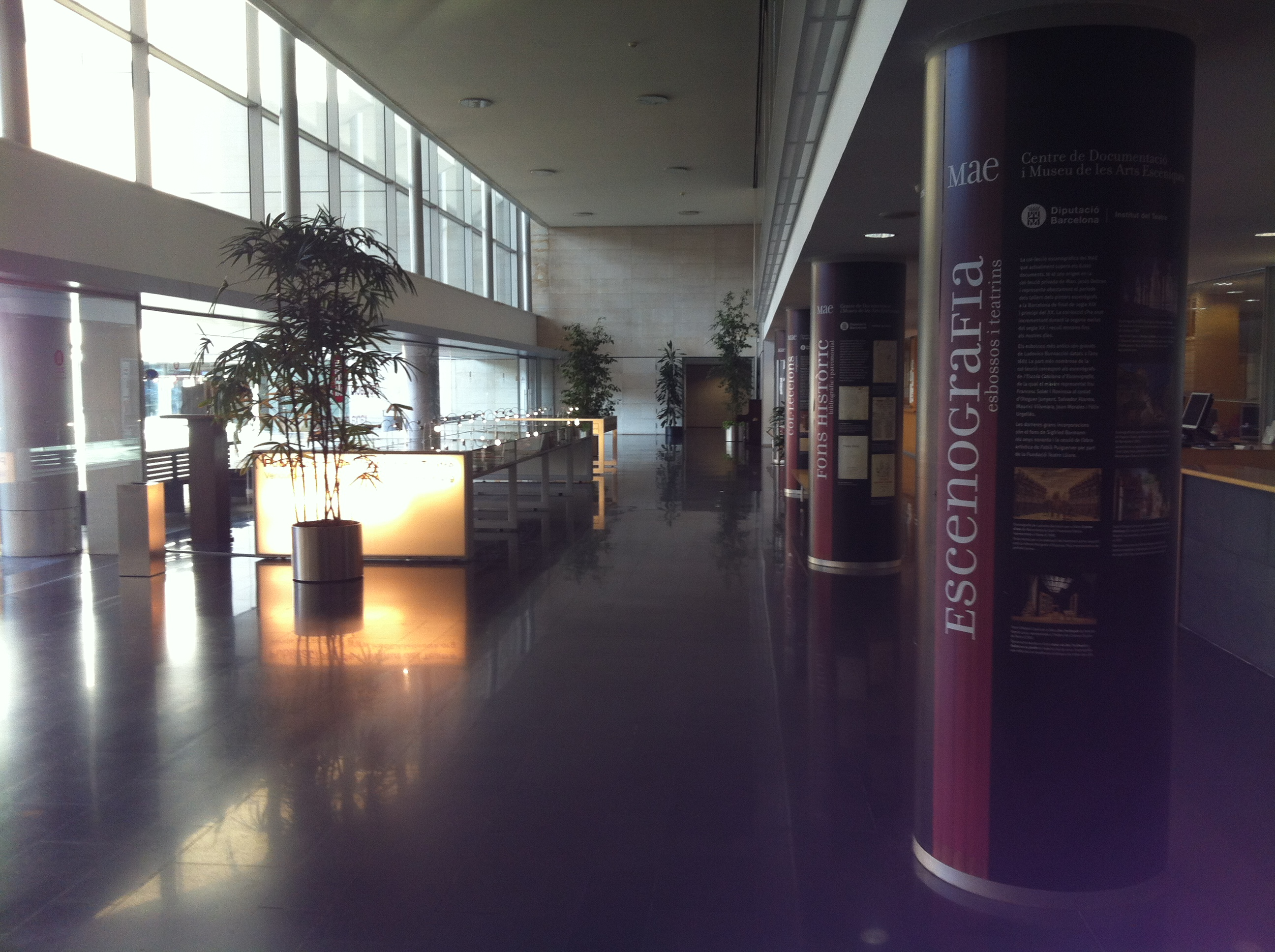 Centre de Documentació i Museu de les Arts Escèniques